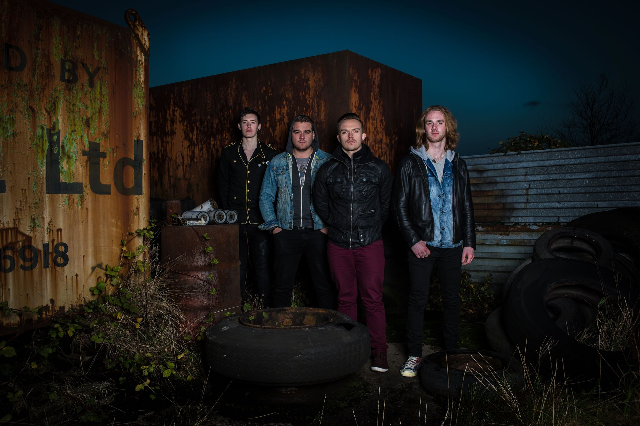 Promotional photograph of band Us Amongst The Rest